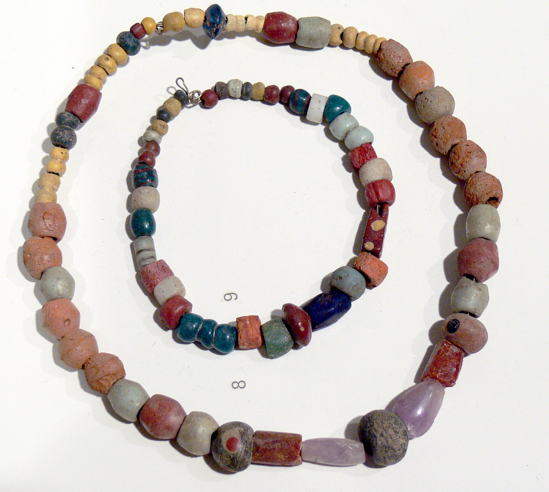 Archaeological museum Gunzenhausen ( Bavaria ). Merovingian necklaces.